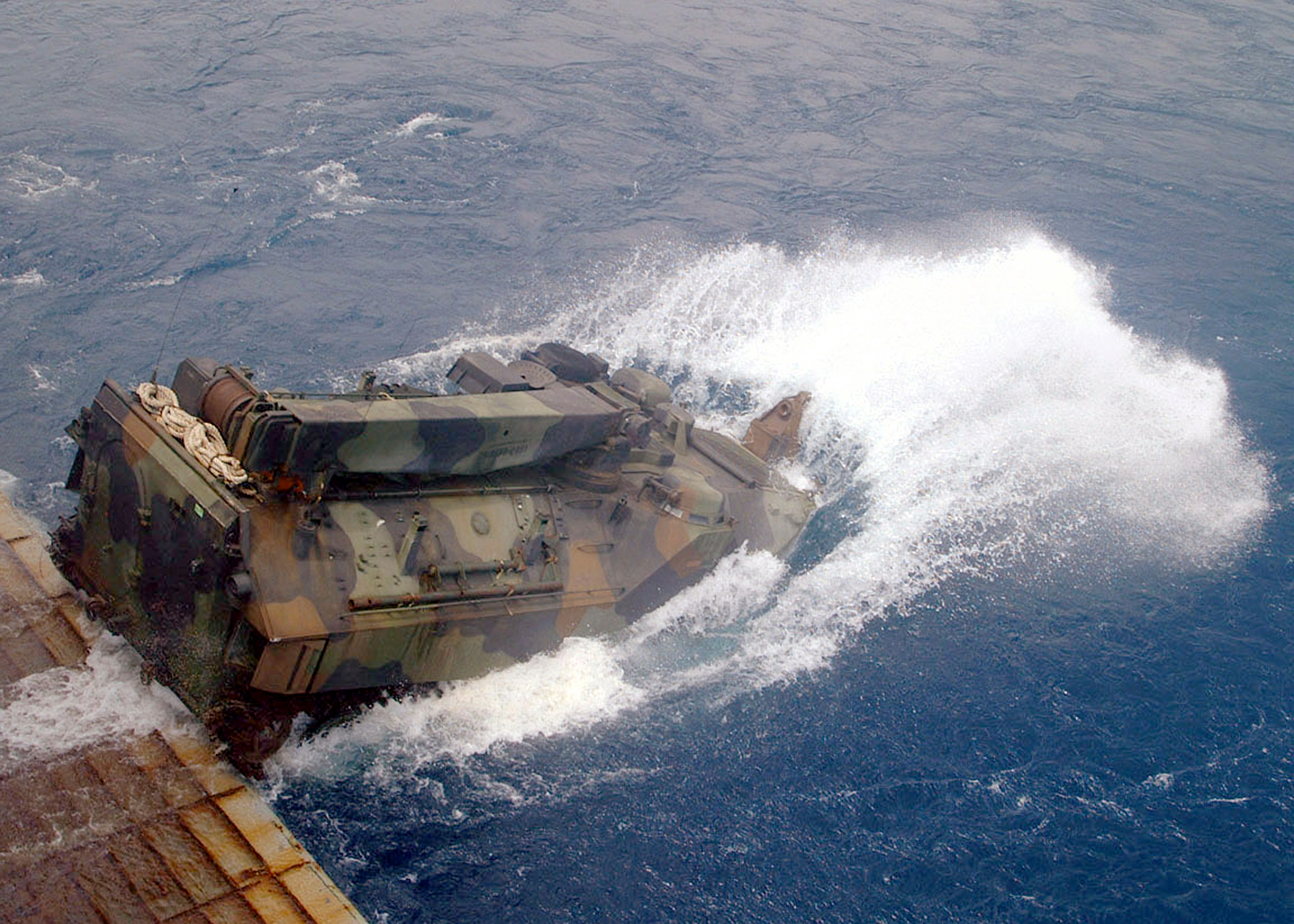 At sea aboard USS Juneau (LPD 10) Sep. 12, 2002 -- An Amphibious Assault Vehicle (AAV) attached to the 31st Marine Expeditionary Unit (MEU) is launched from the well deck of the Juneau and makes its way to the beach during Blue-Green Workups. This semi-annual joint exercise between the USS Essex (LHD 2) Amphibious Ready Group (ARG) and the 31st MEU helps blend the capabilities and techniques of the Navy/Marine Corps team into one cohesive force focusing on conducting amphibious operations in support of a wide range of contingencies, from humanitarian assistance and disaster relief efforts, to full-scale combat operations. The Essex ARG is conducting the exercise in the vicinity of Okinawa, Japan. U.S. Navy photo by Journalist Seaman J.J. Hewitt. (RELEASED)